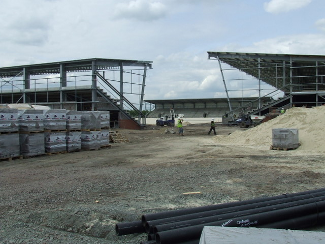 St Mirren's new stadium. The stadium construction is progressing rapidly. See 686597 for details and earlier photos.